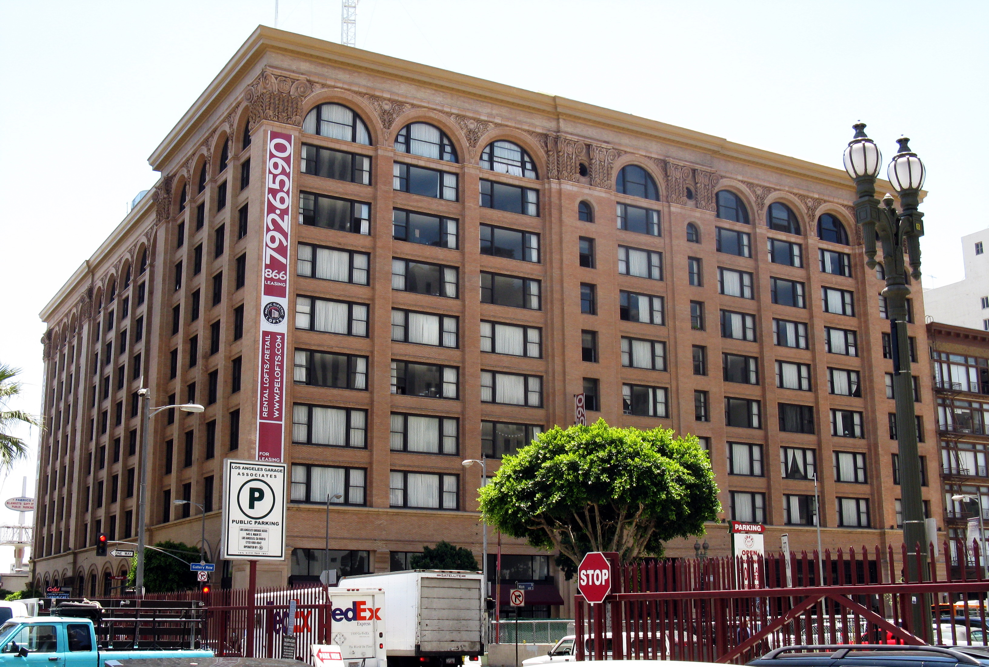 The historic Pacific Electric Building (1903) in downtown Los Angeles, California. It is on the National Register of Historic Places.